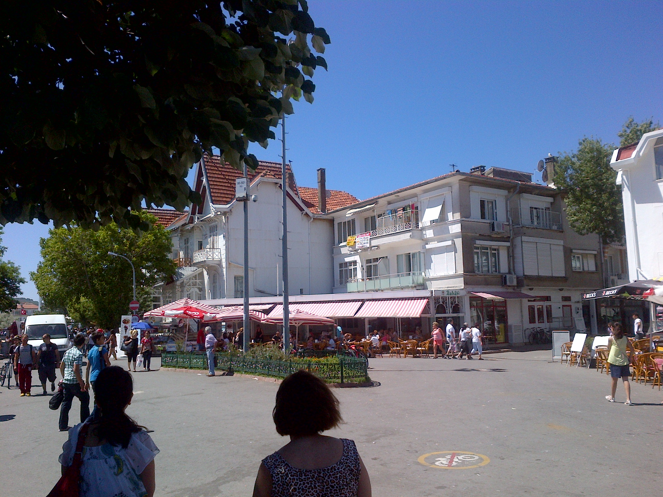 Kınalıada, downtown, in June 2012.